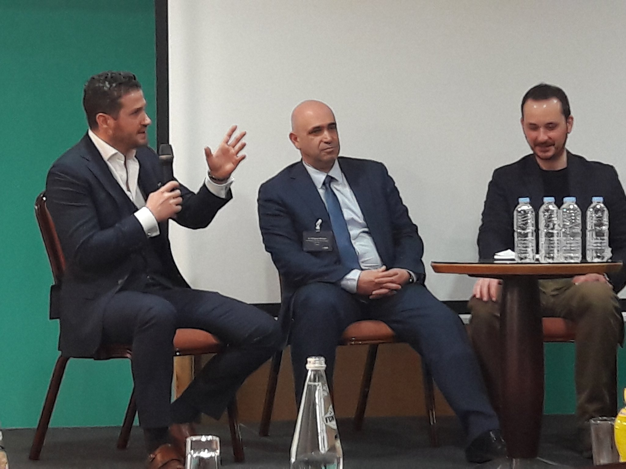 Dr. Ozan Özerk at the NextGen Payments Forum 2017, Malta